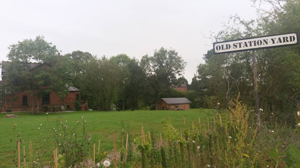 My own photo.